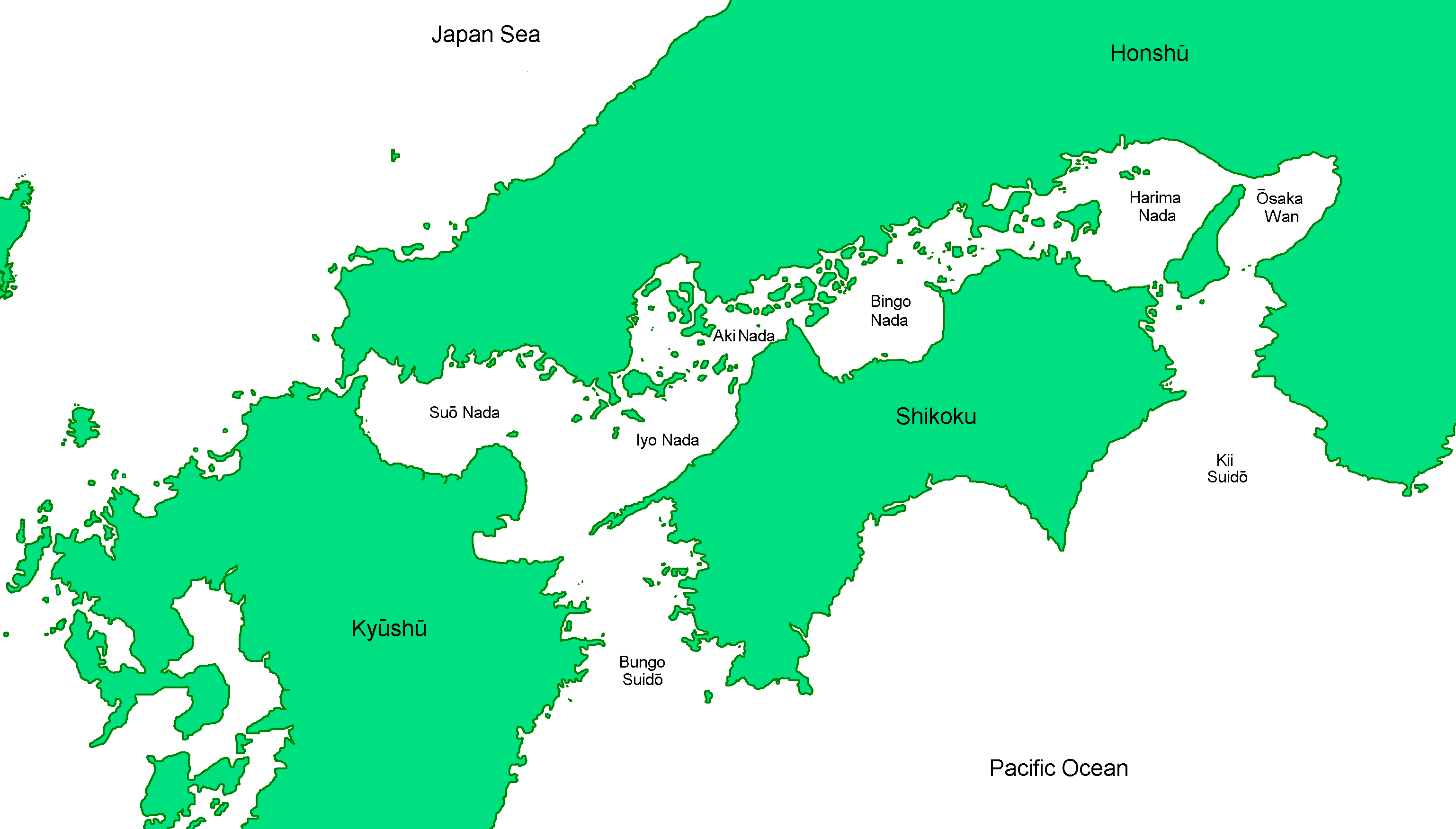 Scheme about inland sea of Japan. sub regions: Suō-nada / Iyo-nada / Aki-nada / Bingo-nada / Harima-nada & Ōsaka-wan